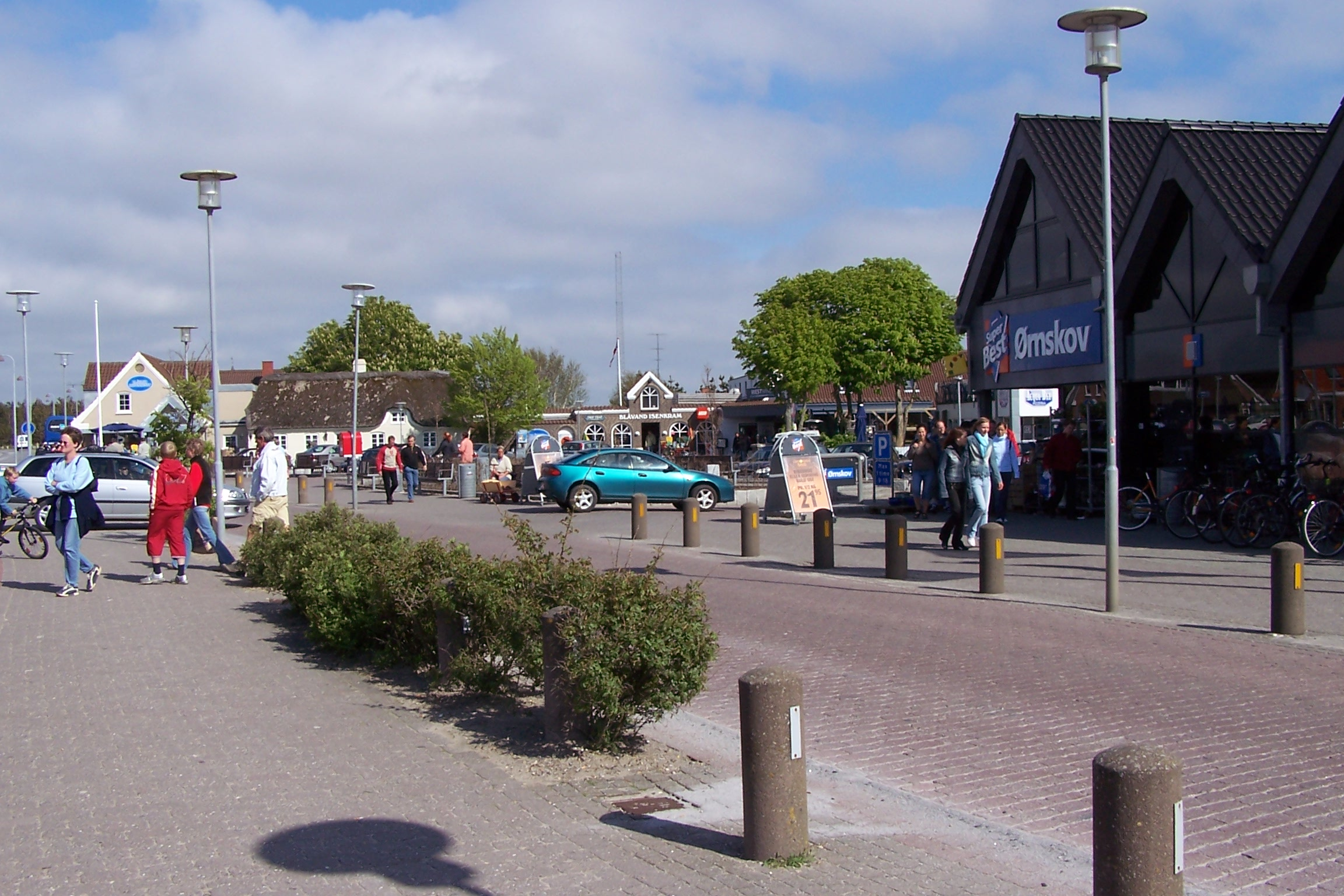 Blåvand-Oksby in Denmark, town centre Photo by Cnyborg, May 2005